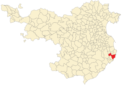 Palafrugell